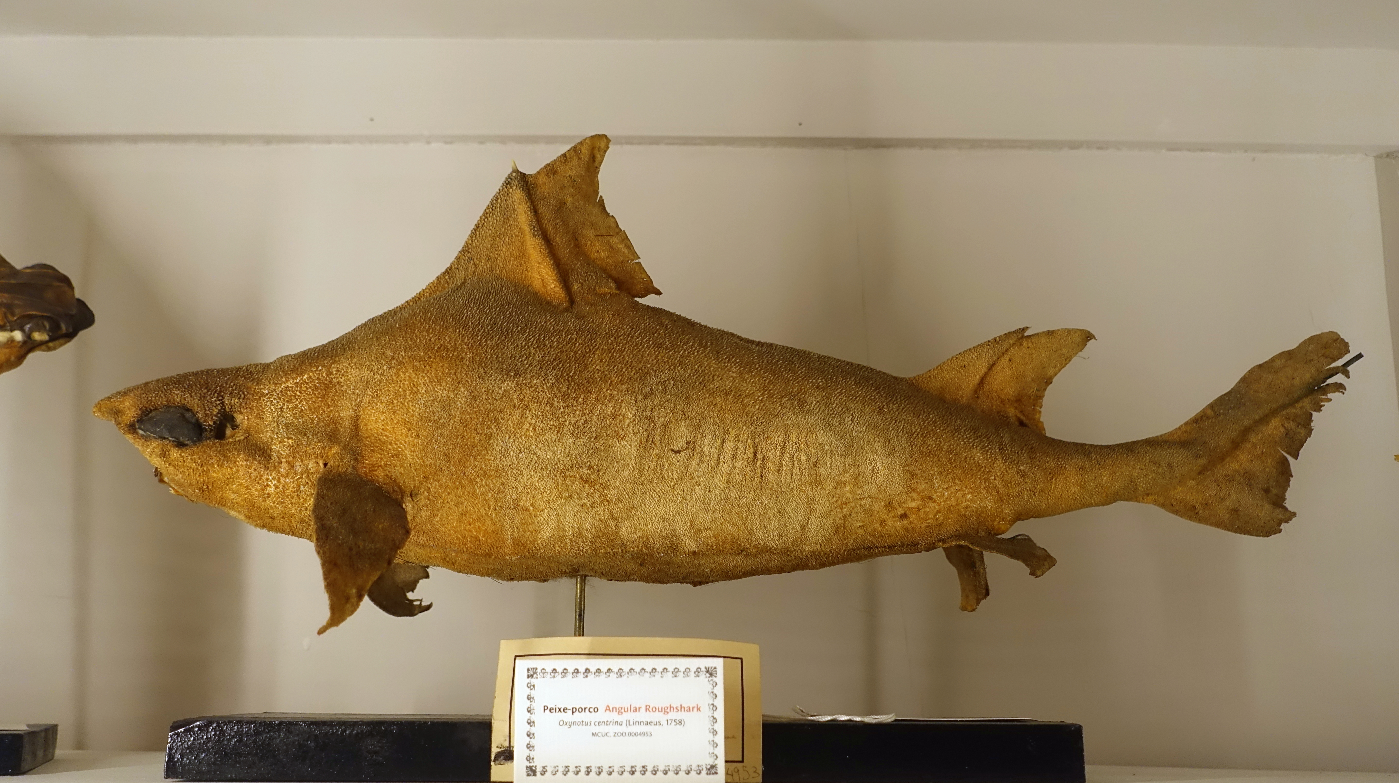 Exhibit in the Museu da Ciência da Universidade de Coimbra - University of Coimbra - Coimbra, Portugal.